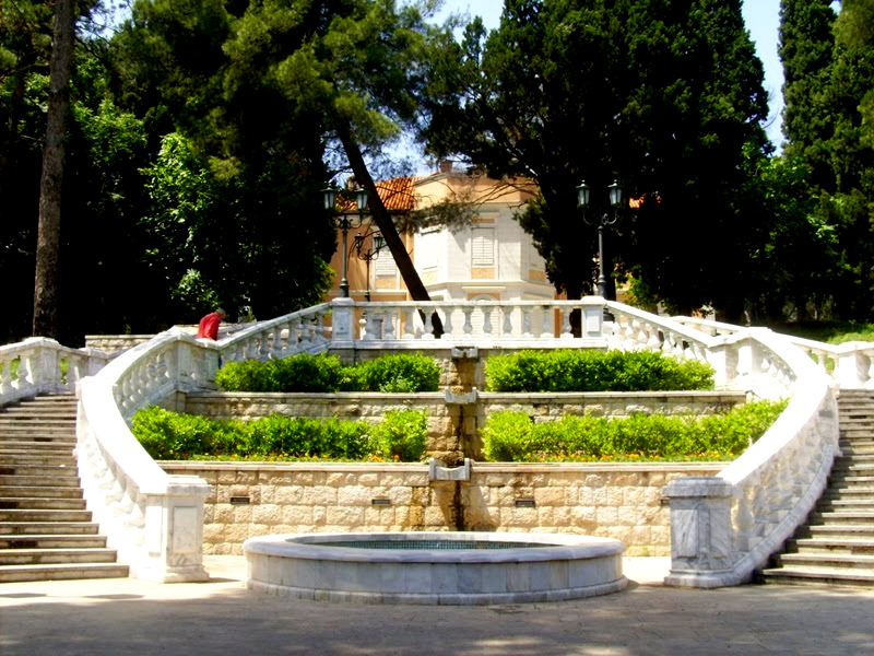 Royal Garden in Podgorica, Winter palace - Milena´s cascade with fountain and staircase.